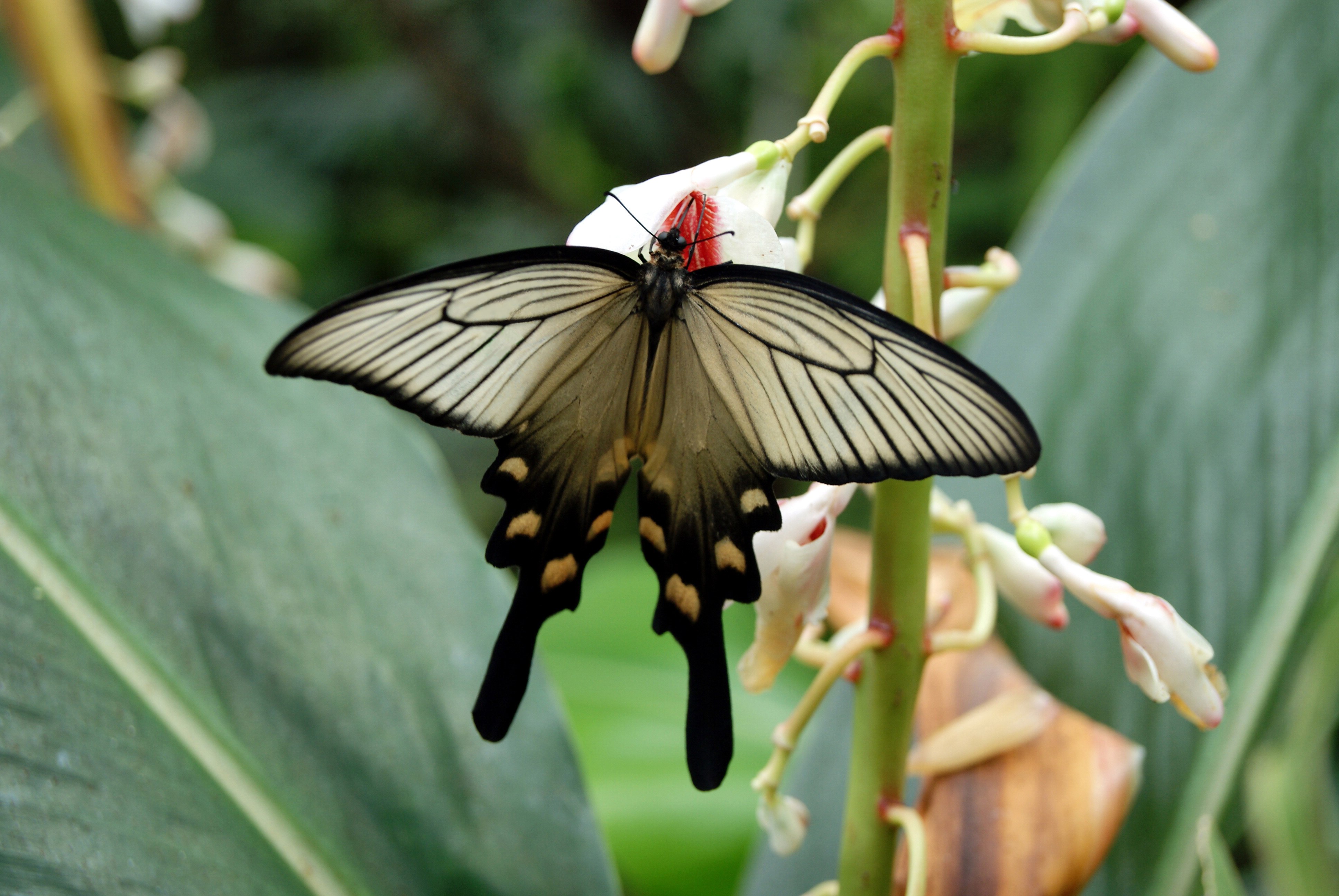 Atrophaneura alcinous at Gunma Insect World.